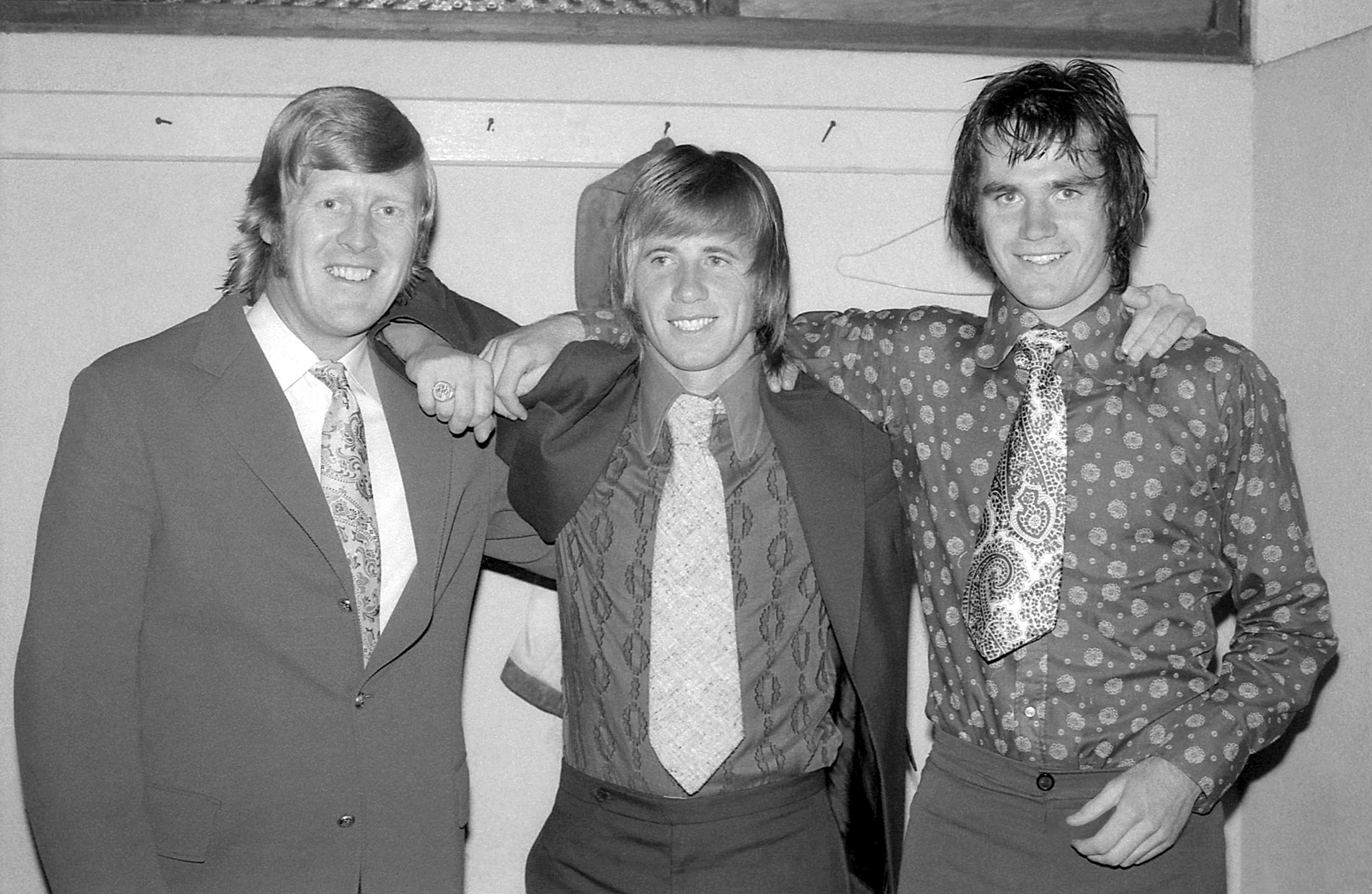 Hellenic Football Club players Tony Allen, Eric Welsh and Colin Gie, post match versus Port Elizabeth City at the Green Point Stadium, Cape Town, in 1973.